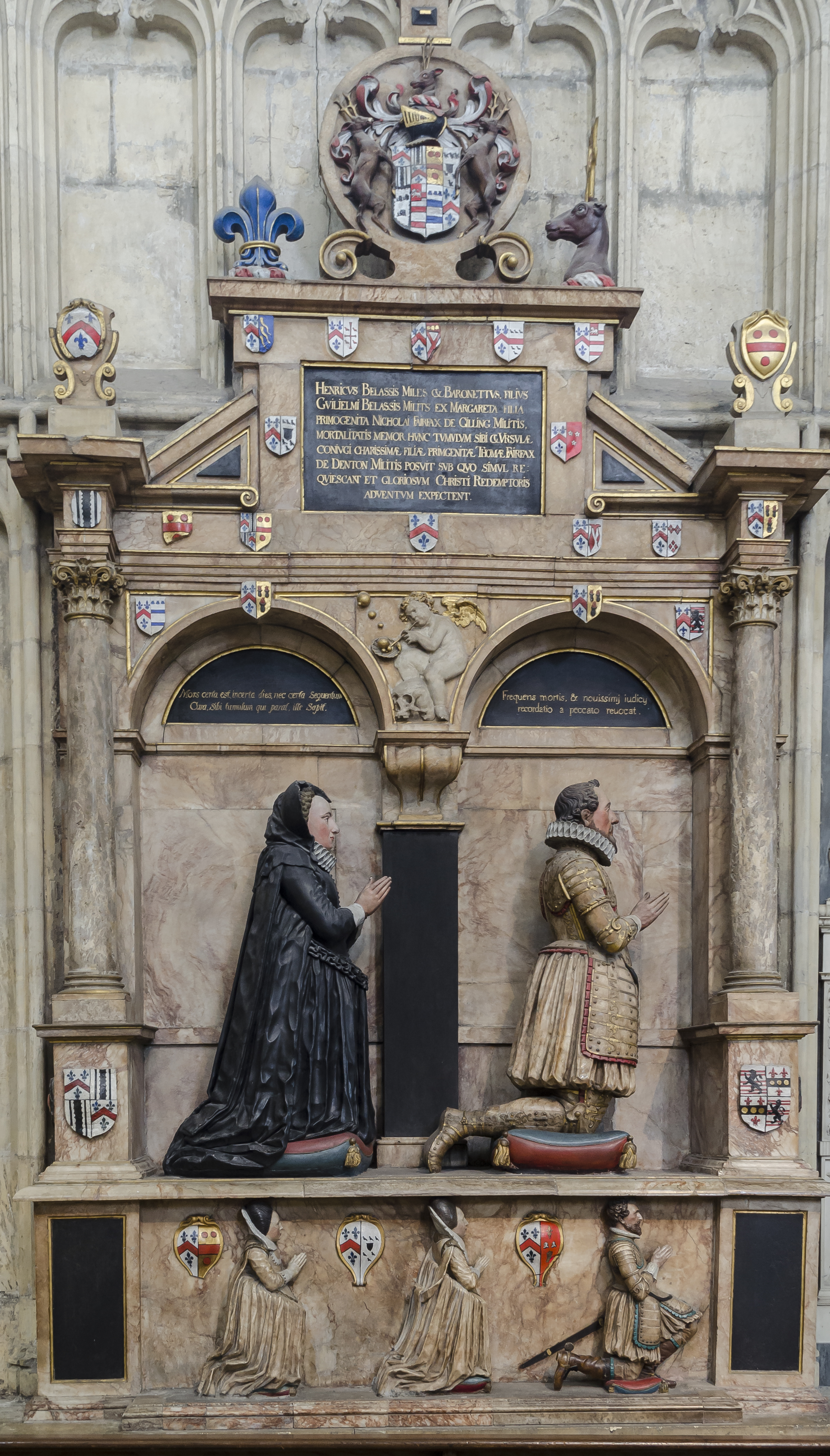 Sir Henry Belassis, Baronet, was born 1555 and died in 1624, and was Sheriff of Yorkshire and MP for Thirsk. He was son of Sir William Belassis and Margaret Fairfax. He married Ursula Fairfax (d. 1633) and they had 3 children, Thomas, Dorothy and Mary, seen as weepers below. Monument by Nicholas Stone and includes a putto blowing bubbles - referring to the transience of human life. Collins's Peerage of England; Genealogical, Biographical, and ..., Volume 6 By Arthur Collins, Sir Egerton Brydges[1]: "Sir Henry Belasyse had a monument erected in his lifetime, in the cathedral of York, with the effigies of him and his lady, his son, and two daughters, with the following inscription: Henricus Belassis, Miles et Baronettus, filius Gulielmi Belassis, Militis, ex Margaretta Filia primogenita Nicholai Fairfax de Gilling Mililis mortalitatis memor hunc tumulum sibi et Ursulae conjugi charissimae filliae primogenitae Thomae Fairfax de Denton Milit(is) posuit. Sub quo simul requiescunt et gloriosum Christi Adventum expectant. Mors certa est, incerta dies, nec certa sequentum; Cura sibi tumulum qui parat, ille sapit. Freqens mortis et novissimi judicii recordatio a peccato revocat. That the time of his death is not mentioned, may be from the confusion of the nation that then happened".